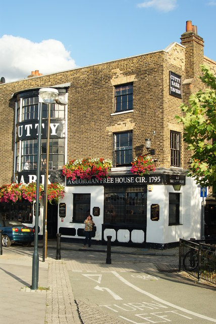 The Cutty Sark Tavern, Greenwich A popular location, on a summer's early evening; I heard the pub before I saw it. The beer garden is to the left of the photographer.